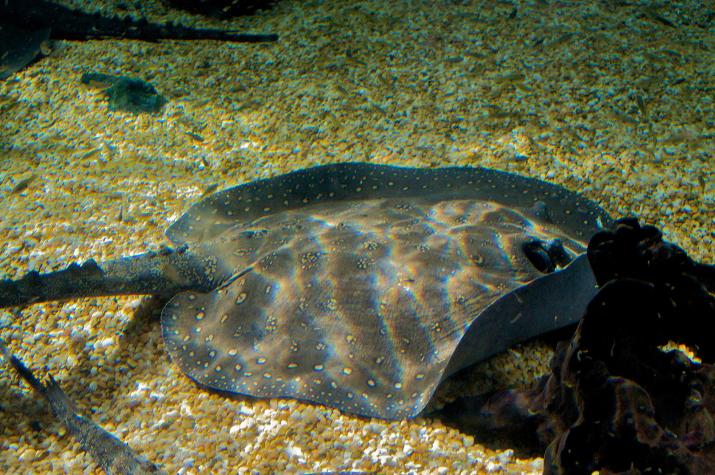 Vermiculate river stingray (Potamotrygon castexi) at the National Zoo